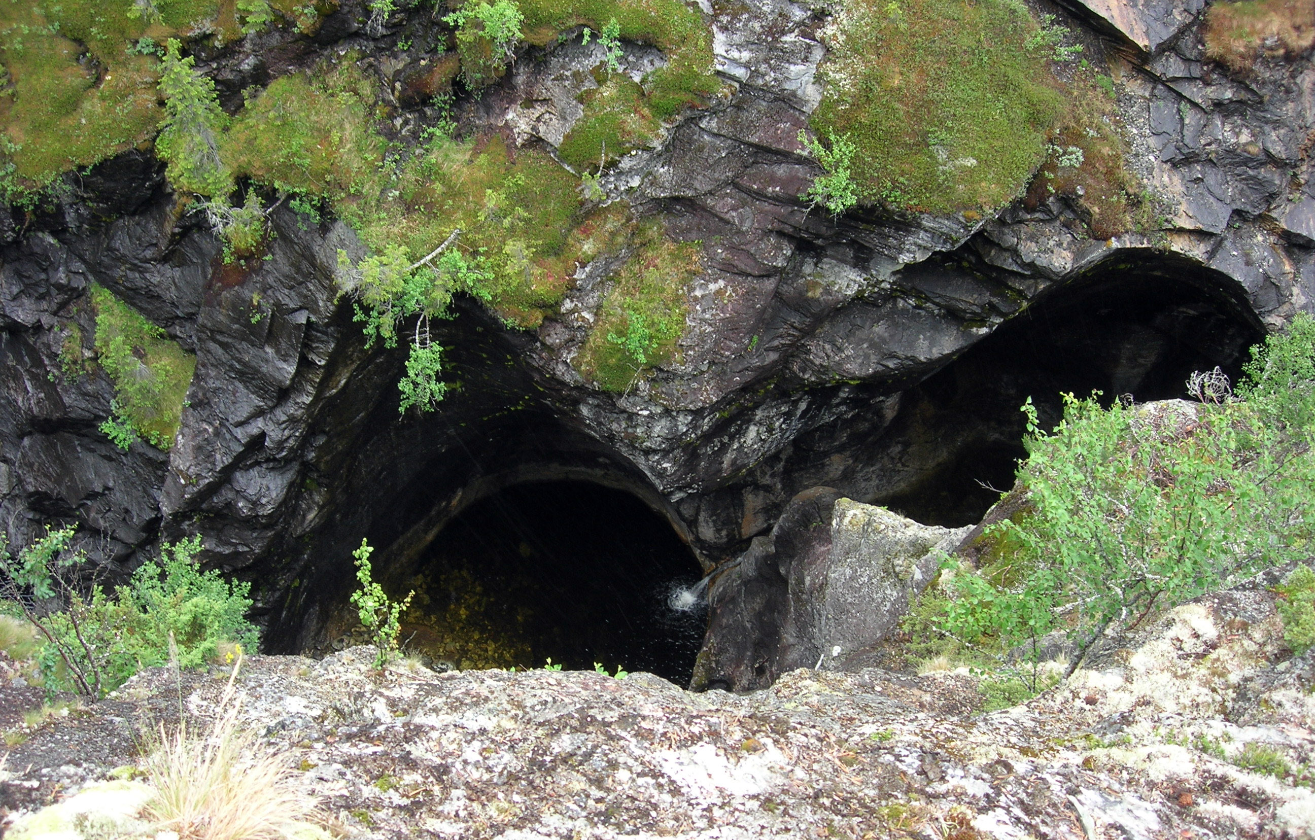 Giants kettle in Helvete, Gausdal, Oppland, Norway